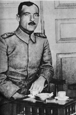 Toydemir during the Sivas Congress in 1919.